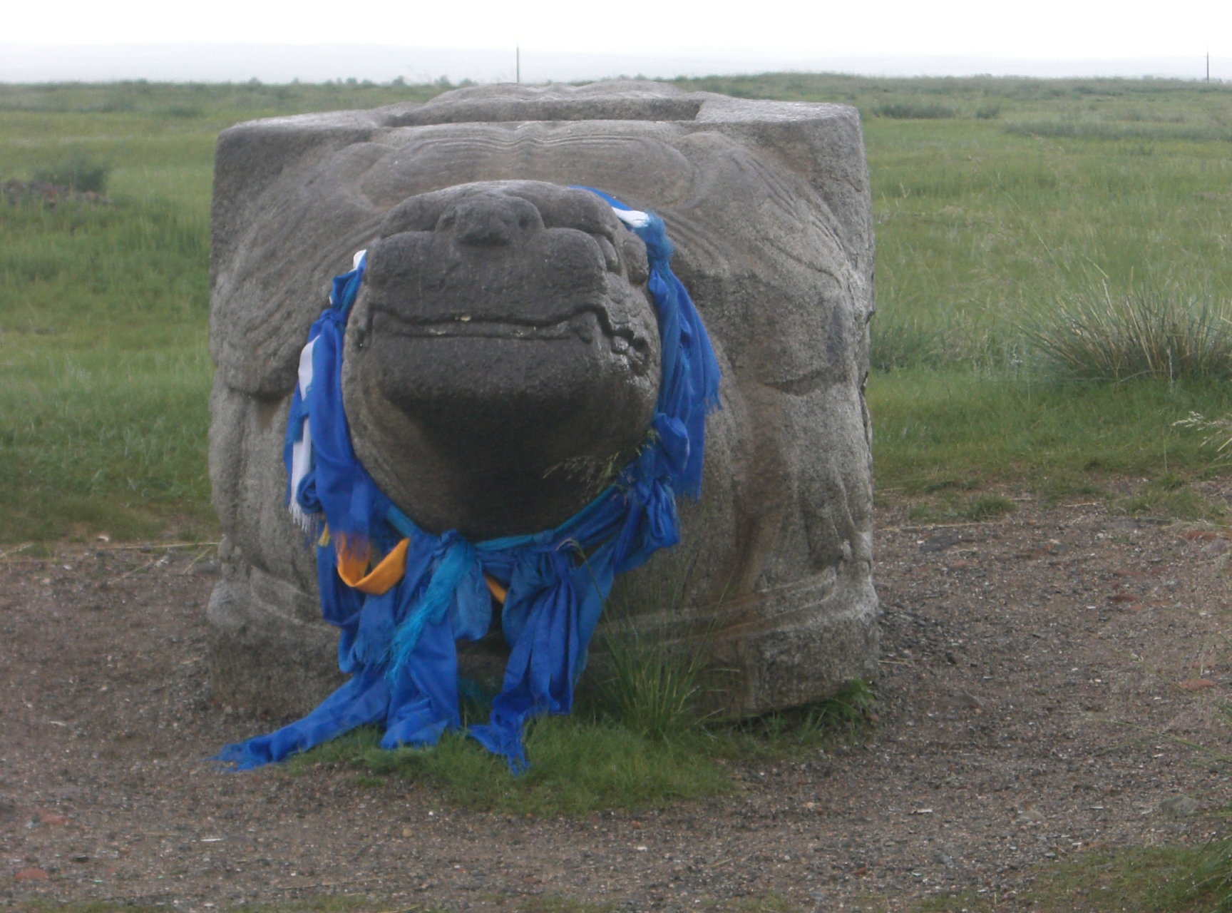 Stone Turtle near to the Monastery Erdene Zuu in Mongolia